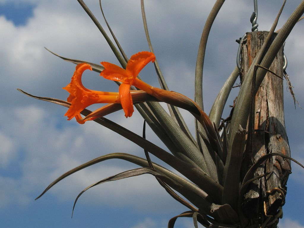 Tillandsia erici in cultivation at the Botanical Garden of Heidelberg, Germany.